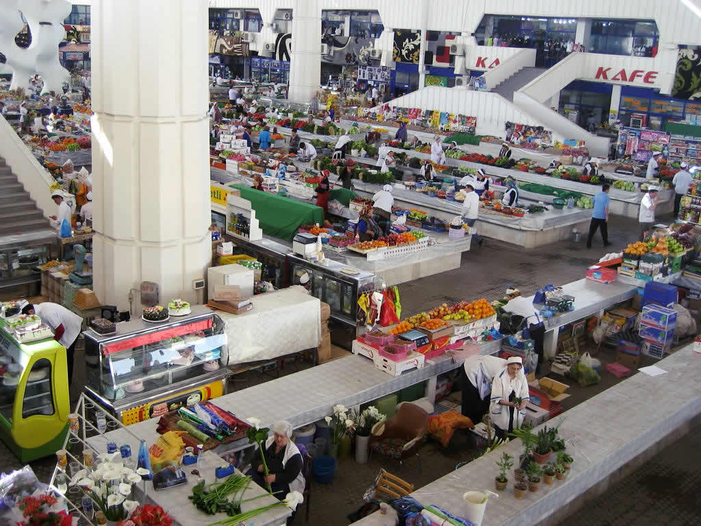 Russian Bazaar, Ashgabat, Turkmenistan